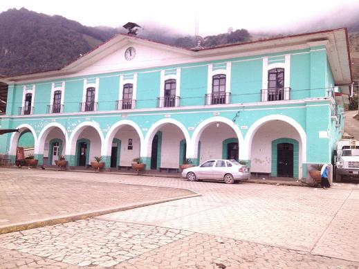 principal monumento